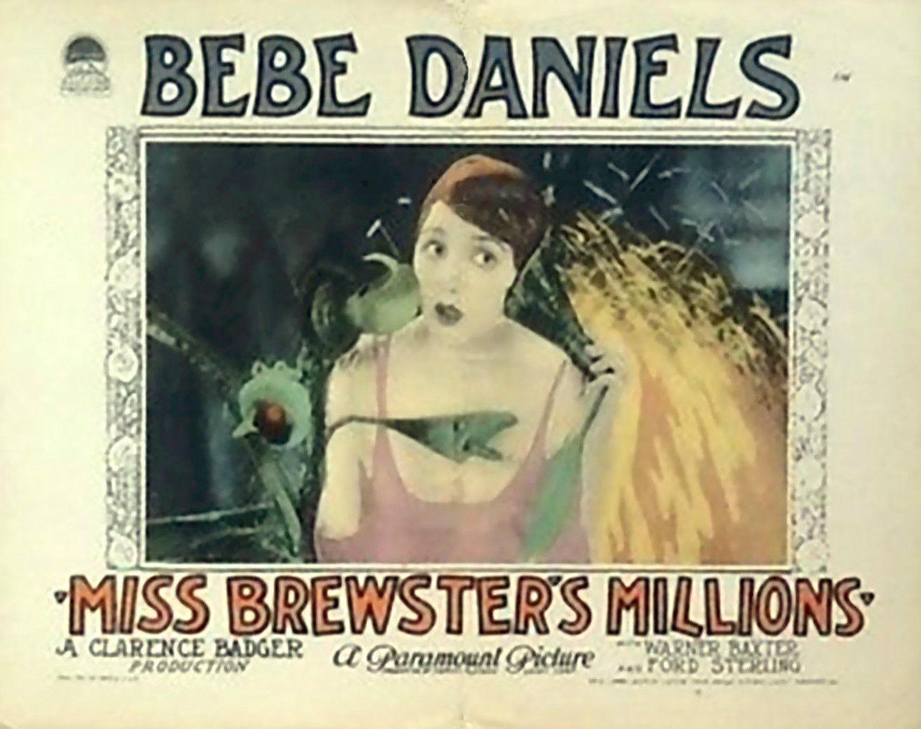 Lobby card for the American comedy film Miss Brewster's Millions (1926). A renewal search was done in both film and artwork for the years 1953 and 1954. There were no listings for the film title in film and no listings for Paramount, Famous or Lasky in artwork. There's no evidence of continuing copyright for either the film or its related material.